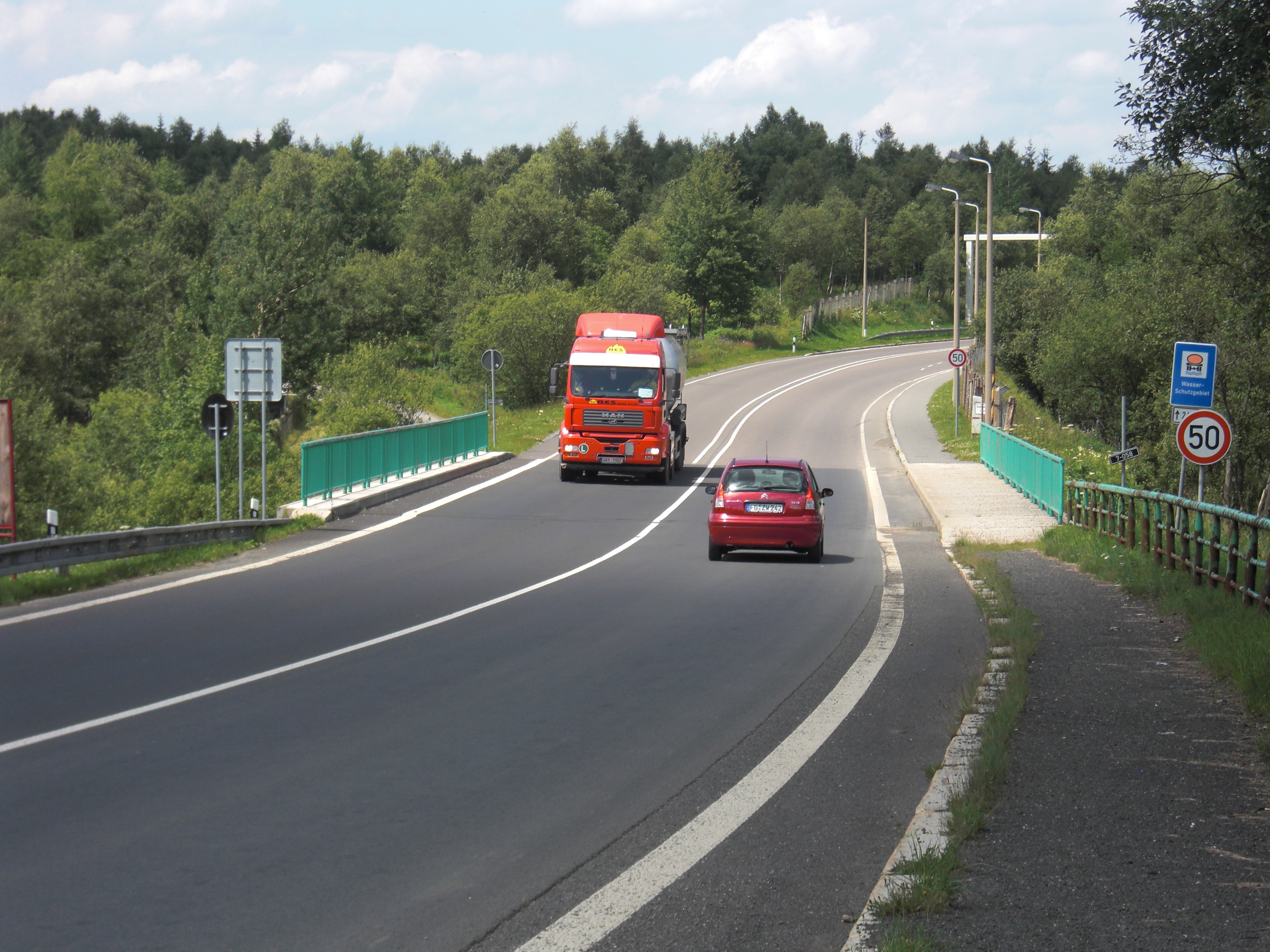 Border crossing